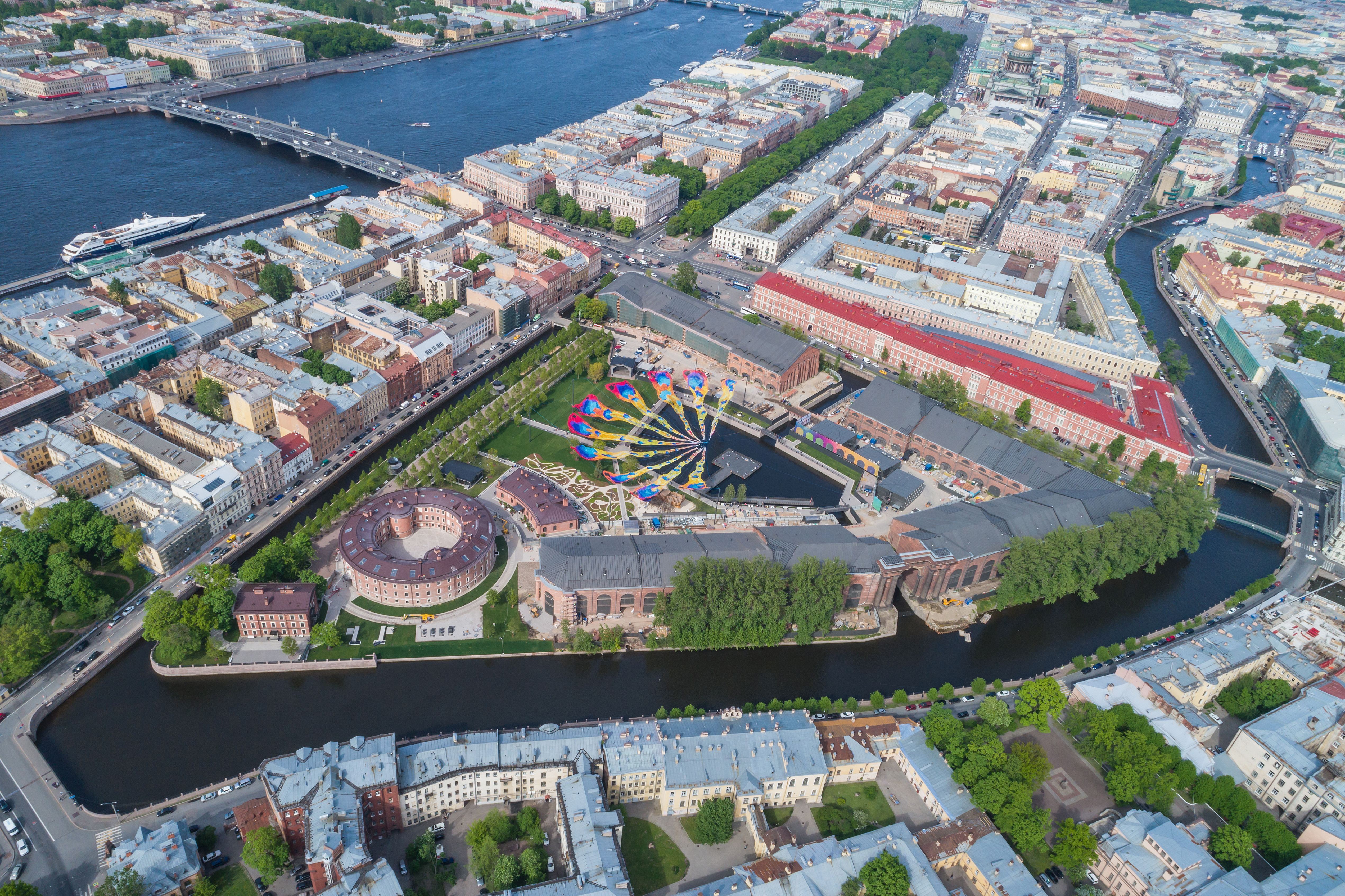 Aerial photo of New Holland Island in Saint Petersburg (Russia).